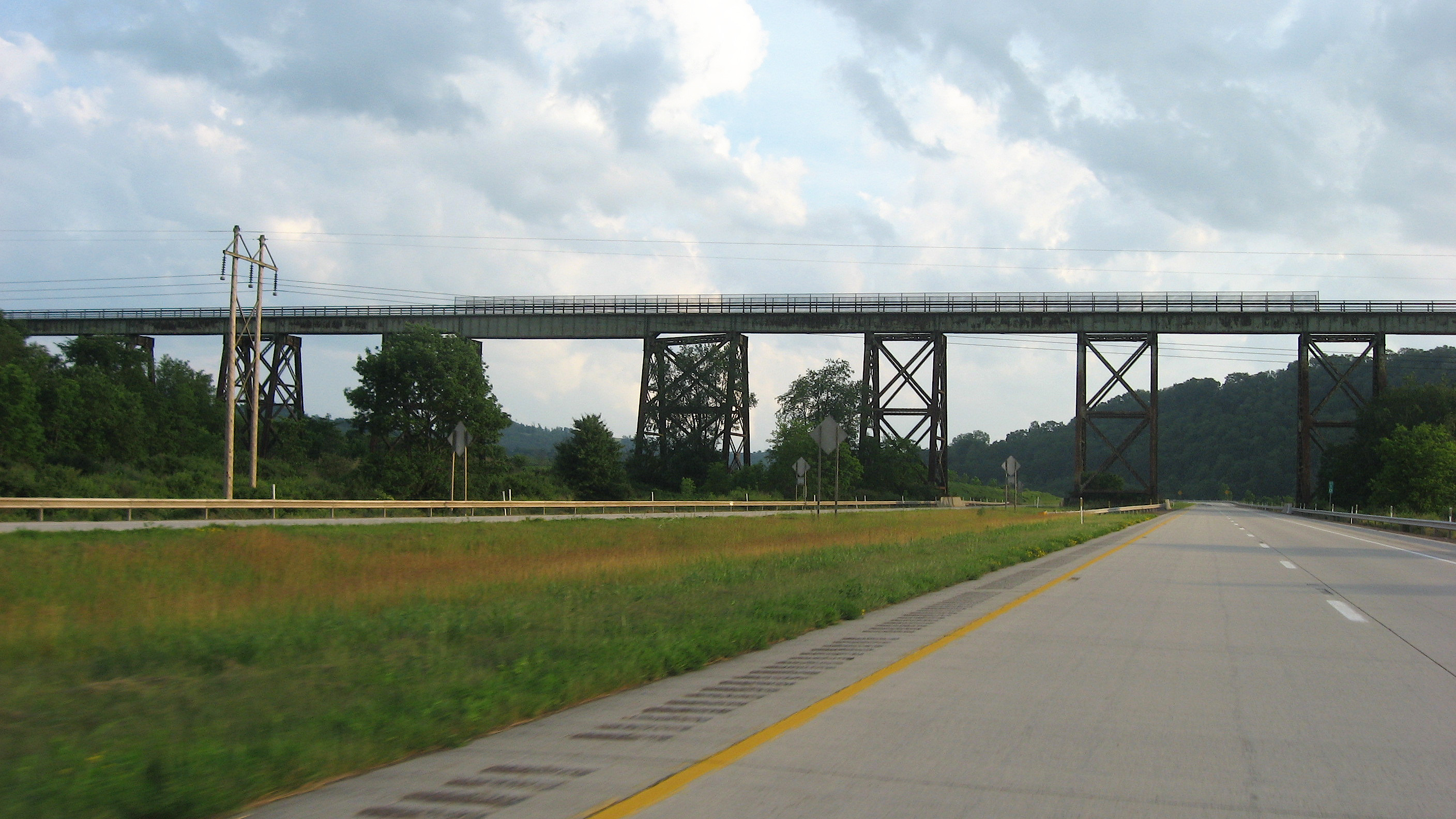 Looking southward along U.S. Route 219 in Summit Township, Somerset County, Pennsylvania, United States. This scene, located between Garrett and Meyersdale, centers on the Salisbury Viaduct, built in 1911 by the Western Maryland Railway. It currently carries the Great Allegheny Passage but no rail lines.